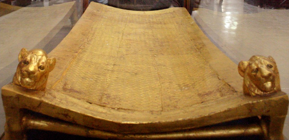 The exquisite, gilded bier on which Egyptian pharaoh Tutankhamun's nest of coffins rested, within his Sarcophagus. It is now on display at the Cairo Museum. This picture was originally taken in 2004. The following notes are taken from Howard Carter's index card : 253.A. WOODEN BIER POSITION: Under outer coffin (253). Resting on bottom of Sarcophagus. DIMENSIONS: L. 221; W. 85; H. 26.5, cents. DESCRIPTION: Heavy wooden bed-shaped bier, gesso gilt, having within outer framework an imitation webbing, resembling much the string mesh of the Sudanese Augaûl. On the front two heads of lions, on the back tails of lions; the legs, in like manner, represent the fore and hind feet of a lion. The head is of concave form to fit and receive the convex bottom of the anthropoid outer coffin. The under part of the imitation mesh webbing is varnished with black resin. REMARKS: Cleaned with warm water & ammonia, consolidated with paraffin wax.